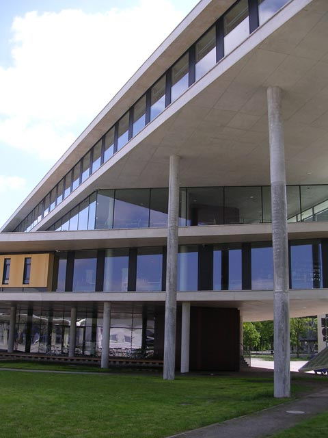 University Library Magdeburg.